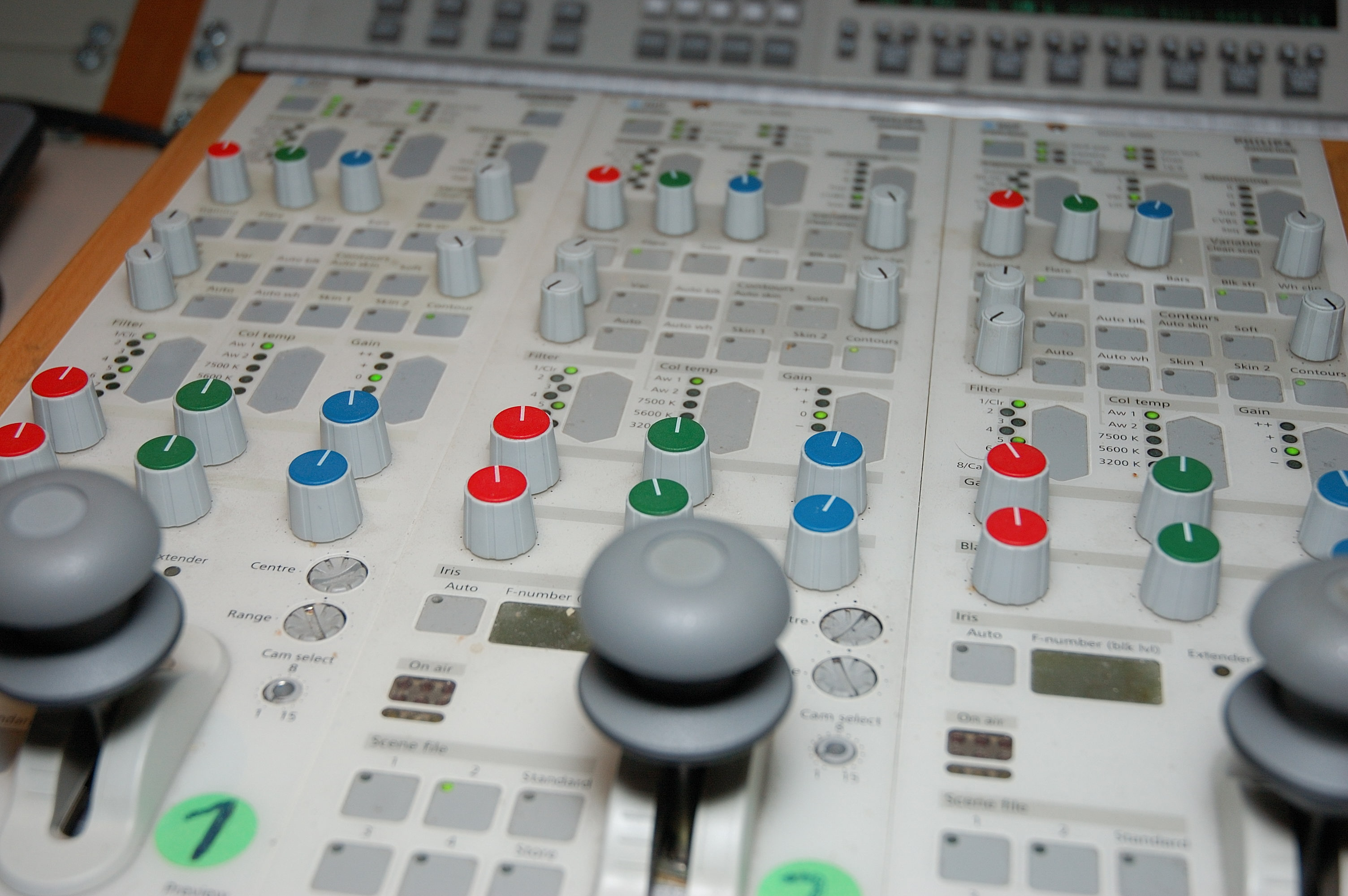 Three Philips series 9000 Operation Control Panels for cameras.